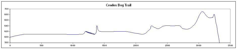 Contours of the Cowles Bog Trail from the Trailhead to the shore of Lake Michigan.